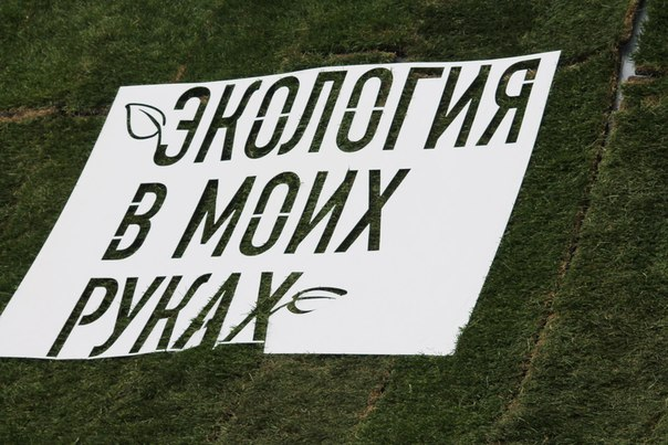 Logo of ecofestival "Ecology is in my arms"